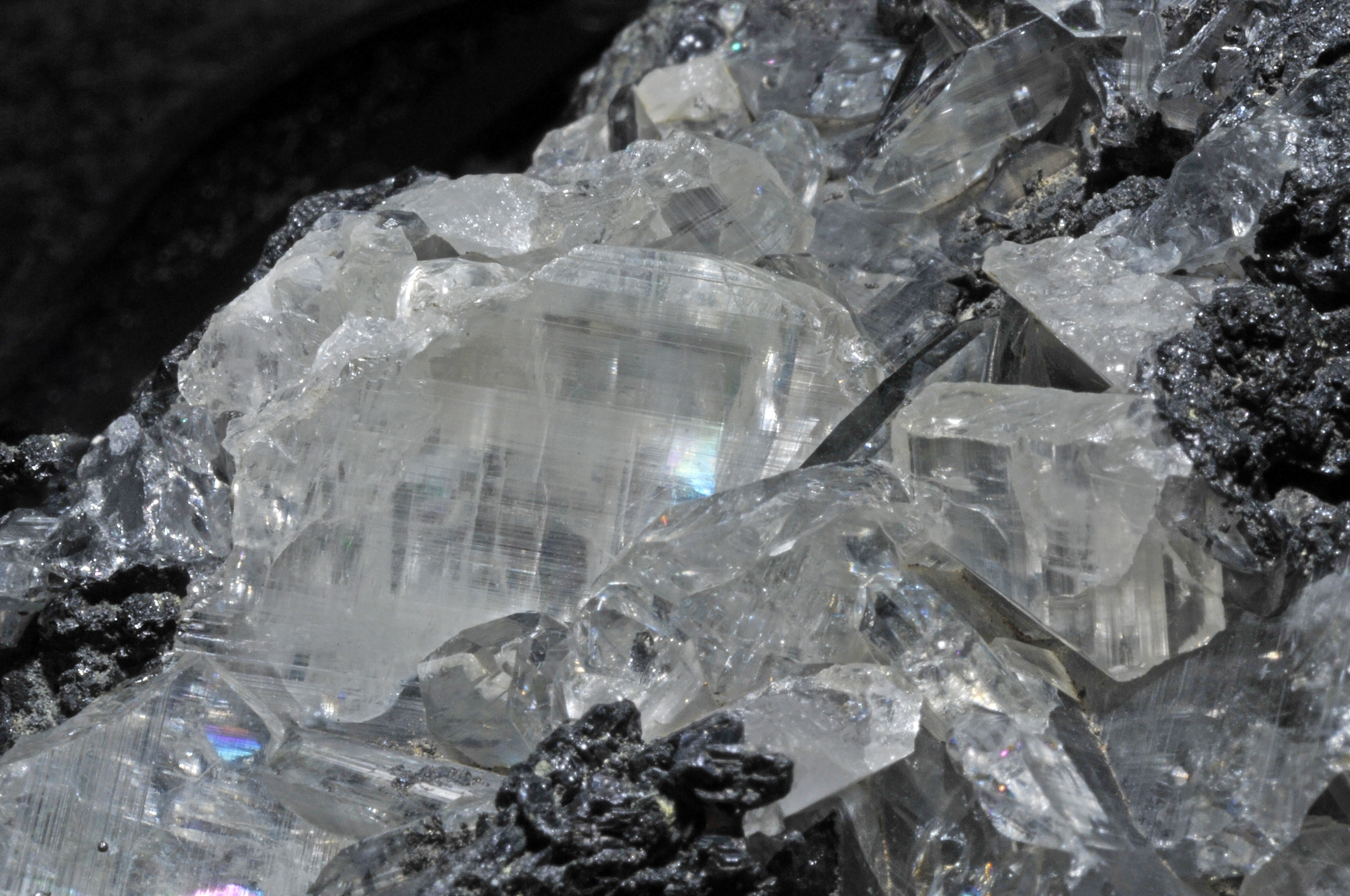 crystals of anglesite, crystals of galena, crystals of sulfur : Touissit, Touissit District, Oujda-Angad Province, Oriental Region, Morocco